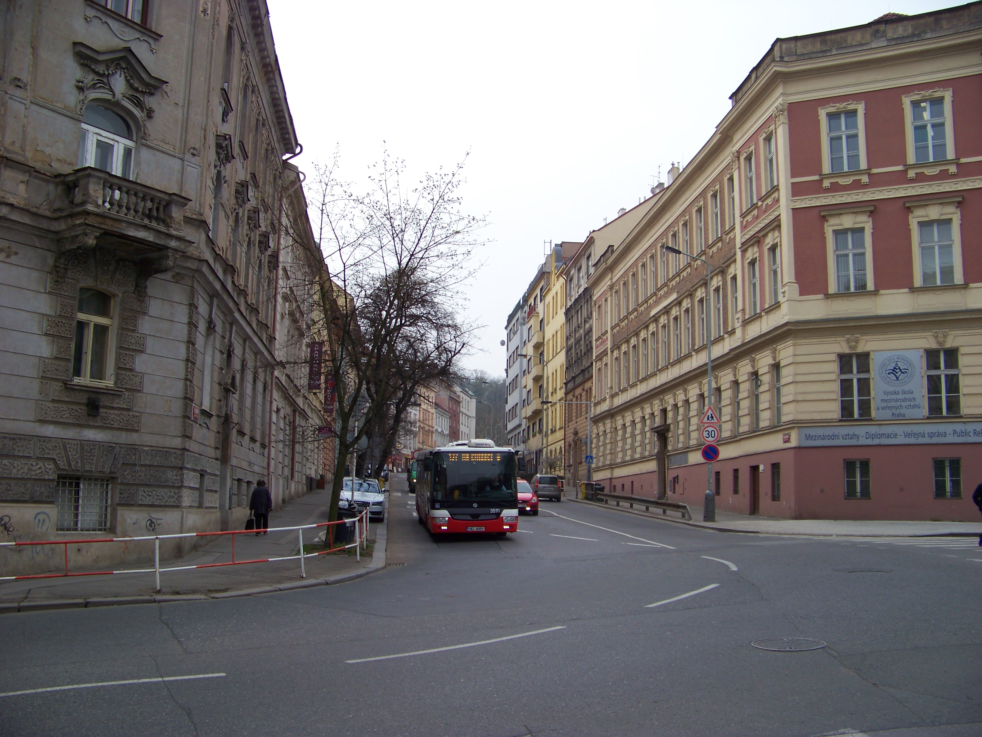 Prague-Smíchov, Czech Republic. U Santošky street. - Google Maps - Google Earth